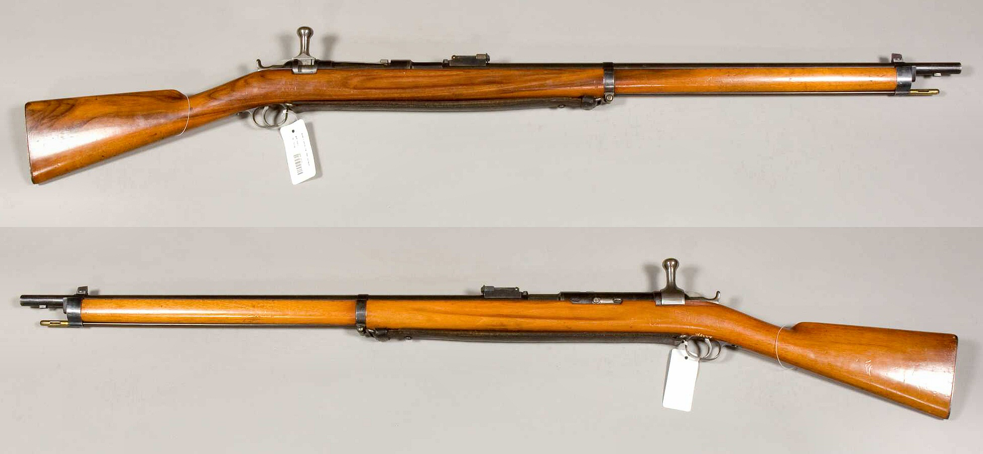 Swedish made Jarmann repeating rifle "försöksmodell 1881" ("two-band" trials model, identical to the Norwegian Model 1884 Jarmann rifle), made by Carl Gustafs Stads Gevärsfaktori. The rifle was accepted in 1884 by the Norwegian army after the joint Swedish-Norwegian rifle trials of the early 1880's, it was also used in limited numbers by the Swedish Navy but not by the Swedish Army. Caliber 10.15x61mmR. From the collections of Armémuseum (Swedish Army Museum), Stockholm.